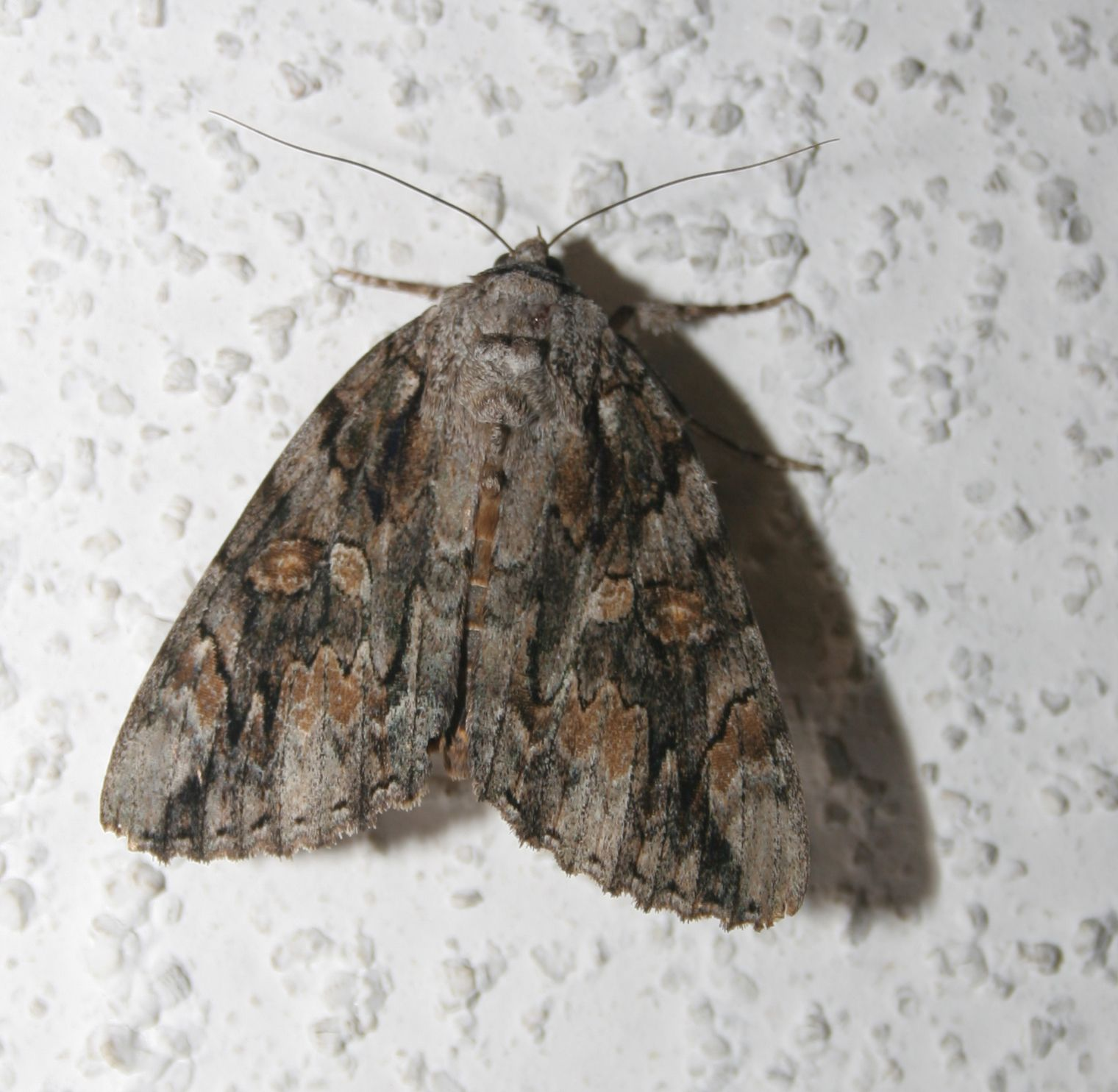 Catocala neogama, Litchfield County, Connecticut. ID by Bill Oehlke.